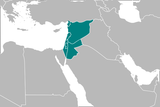 Levant.